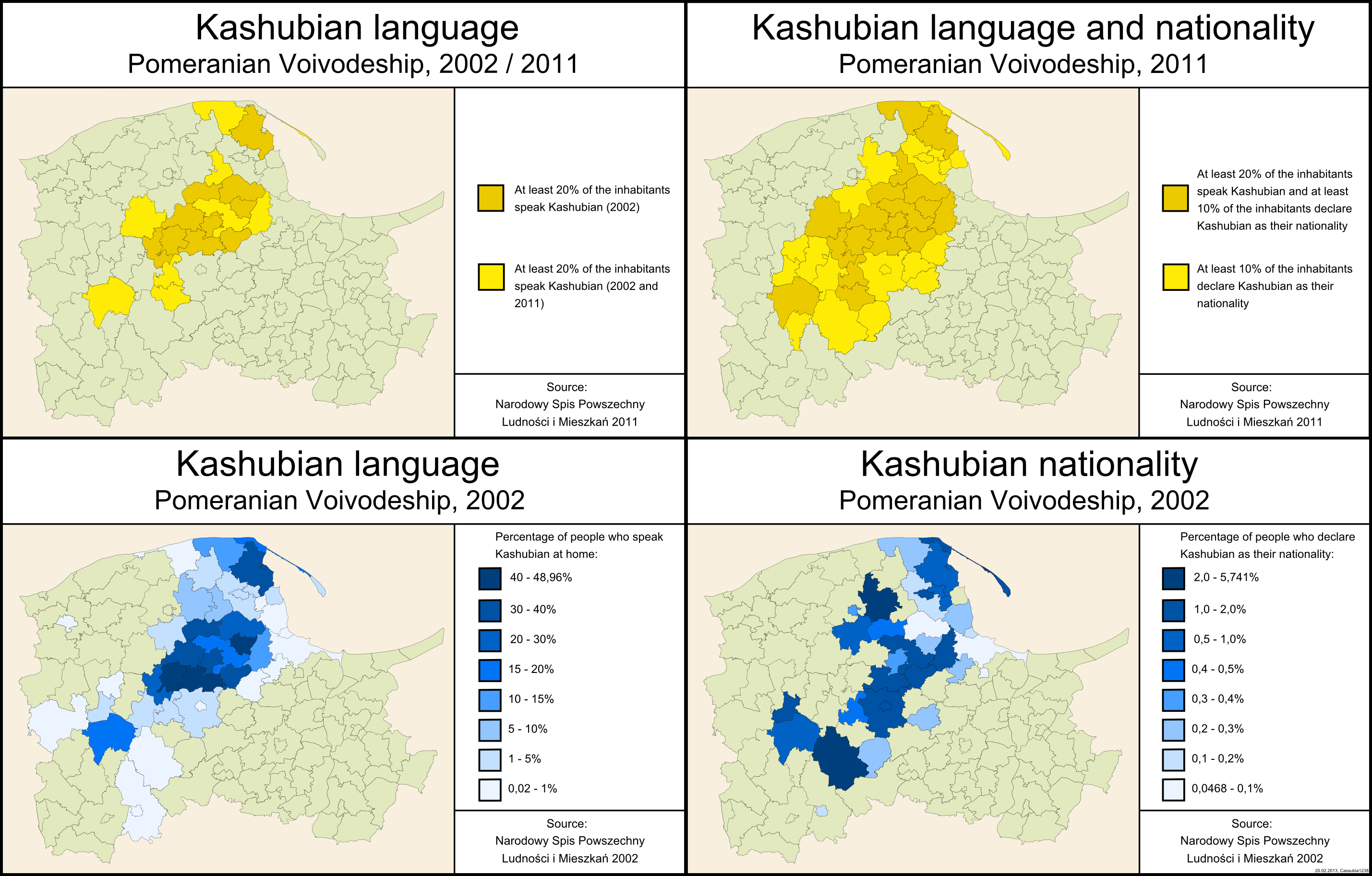 Kashubian language and nationality (2002 - 2011)